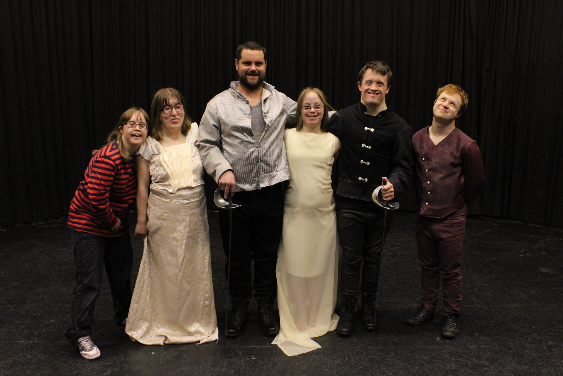 This is the touring cast of Blue Apple Theatre's Hamlet